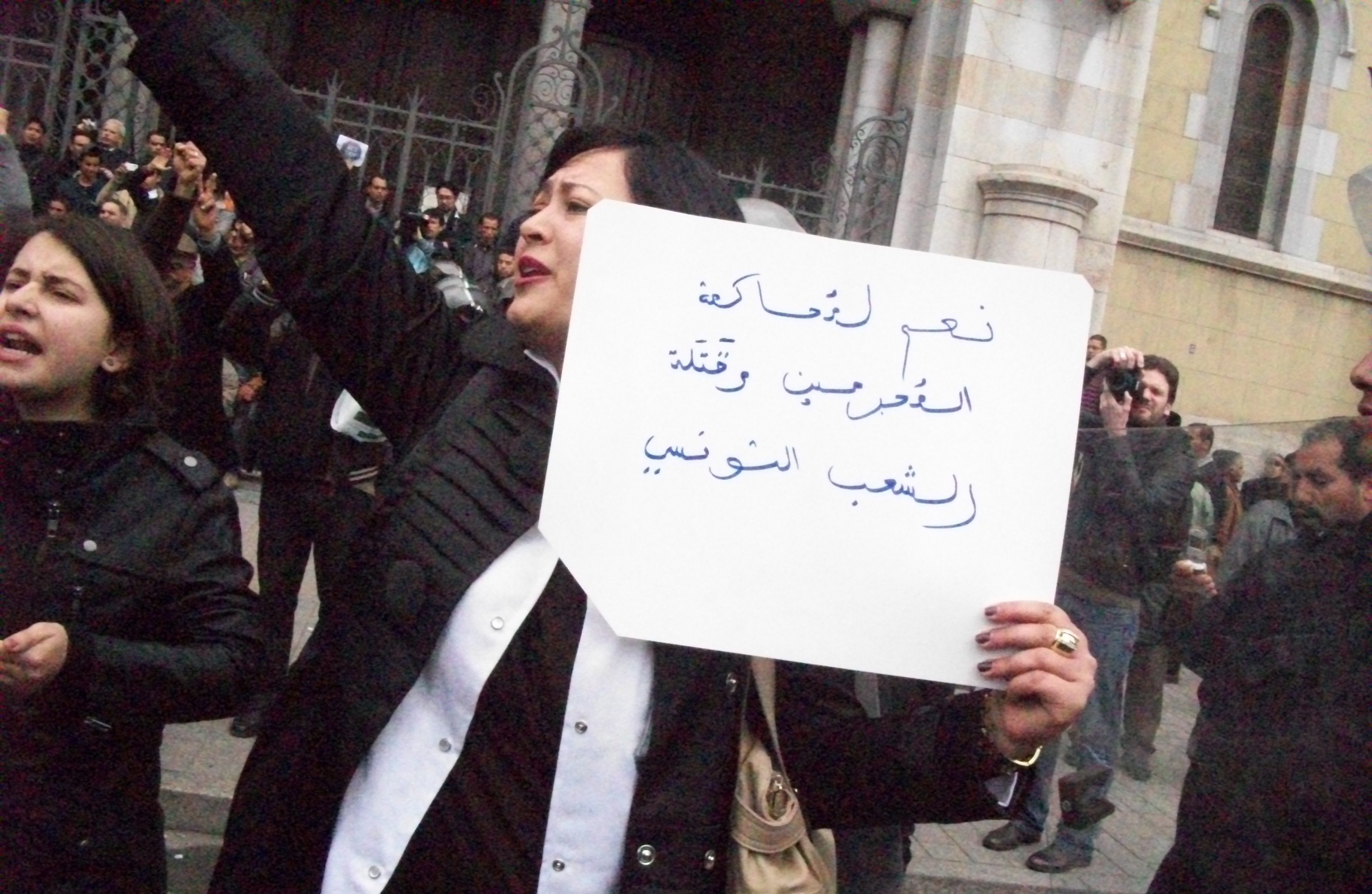 Full story: القصة l'histoire